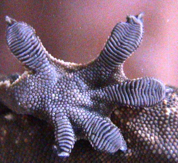 Bottom of the foot of a Crested Gecko, Rhacodactylus ciliatus